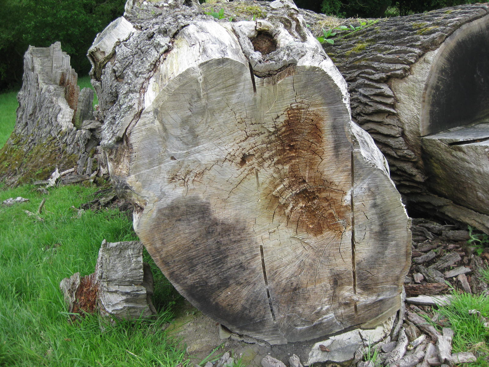 One of the massive oak trees in Lymore Park. As it shows about 350 tree rings, it is likely that these trees were planted at the same time as Lymore was completed in 1677.